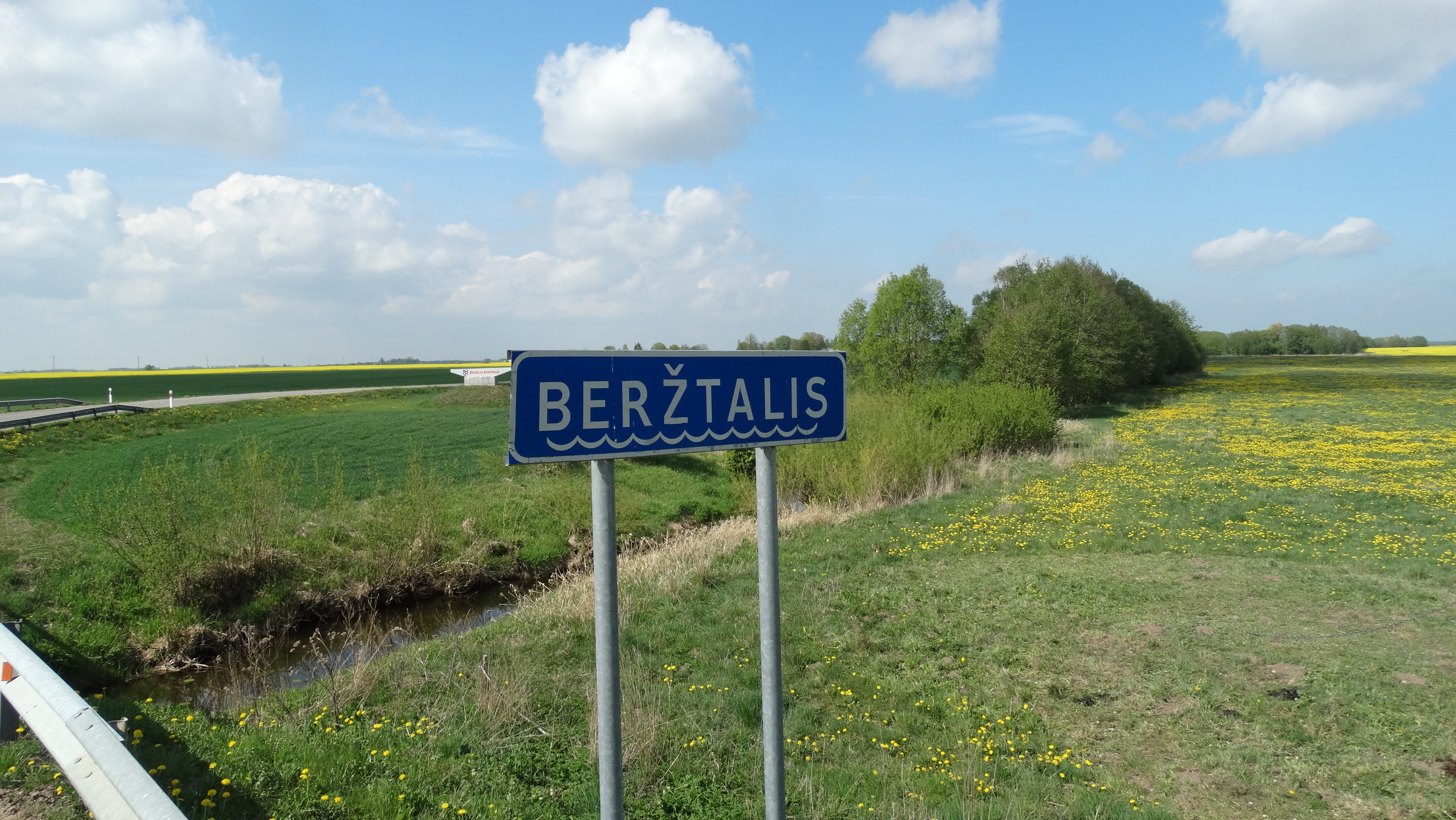 Beržtalis river by Steigviliai, Pakruojis district, Lithuania